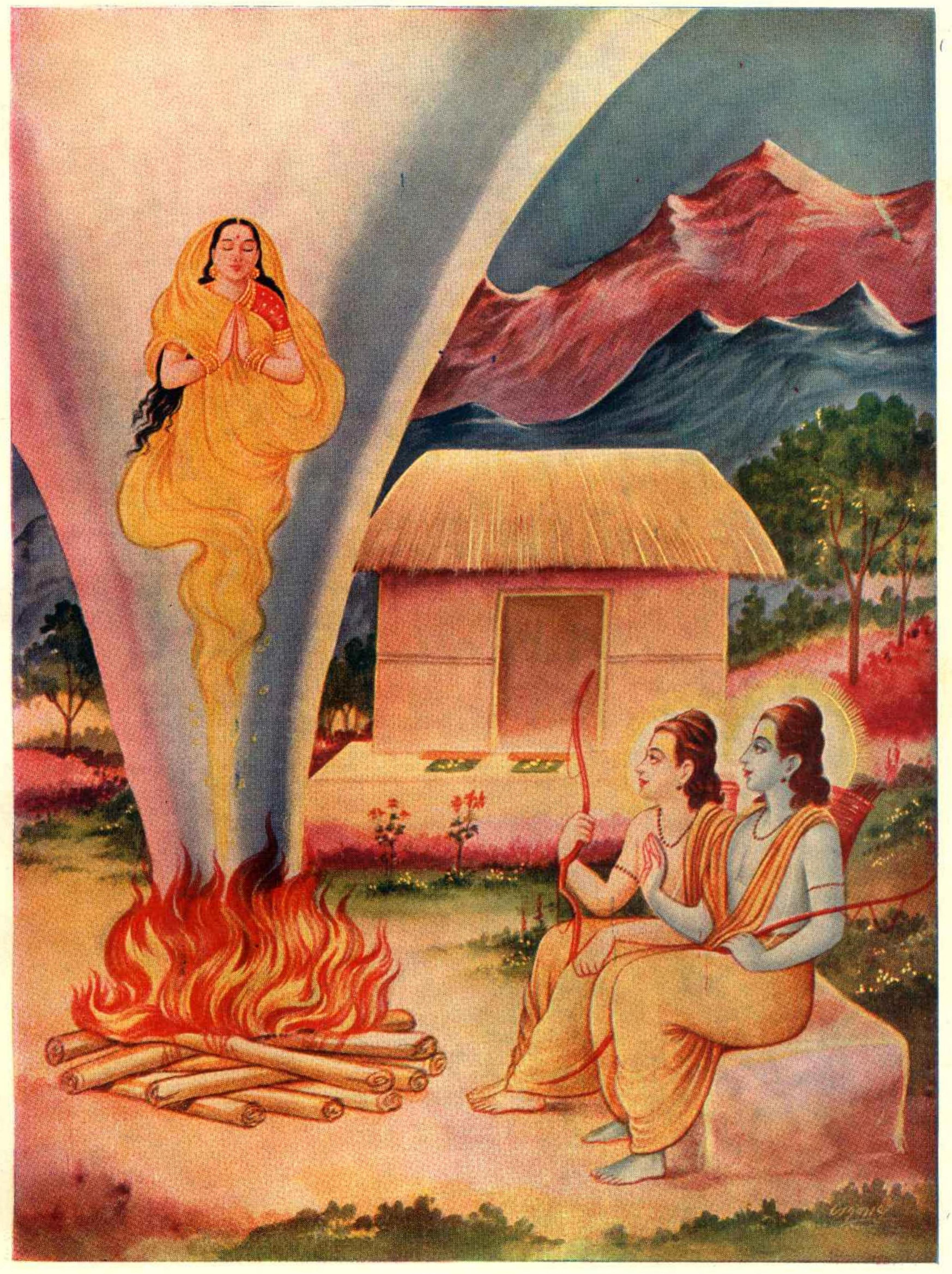 Valmiki Ramayan I Gita Press Gorakhpur by MahaMuni Usage Topics Sanskrit, "महामुनि का संग्रह", "Pratiek-Lucknow" Collection opensource Language Sanskrit Indological Books , 'Valmiki Ramayan I - Gita Press Gorakhpur.pdf' Identifier ValmikiRamayanIGitaPressGorakhpur Identifier-ark ark:/13960/t3908c40s Ocr language not currently OCRable Ppi 600 Scanner Internet Archive HTML5 Uploader 1.6.3